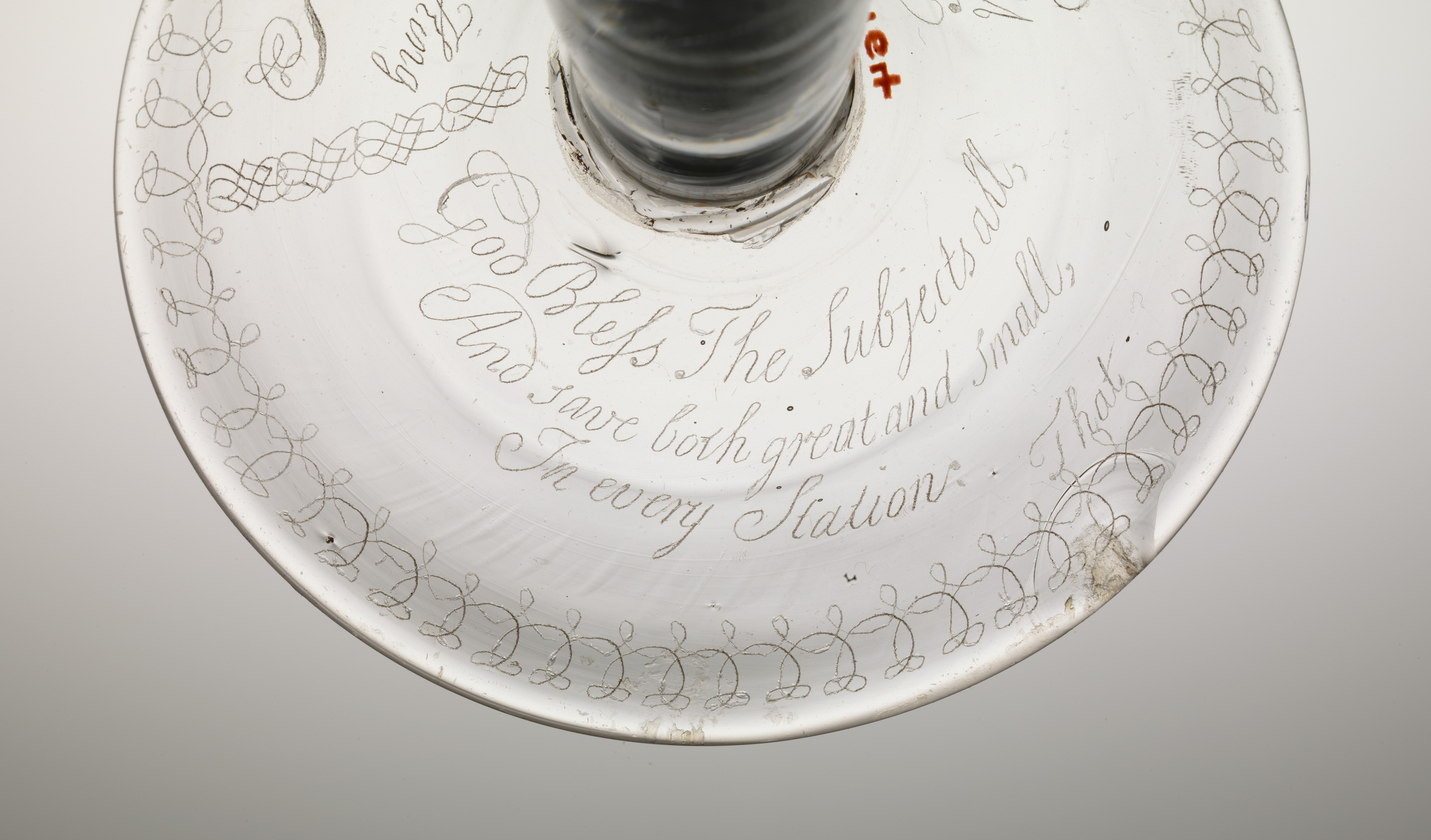 British; Wineglass; Glass